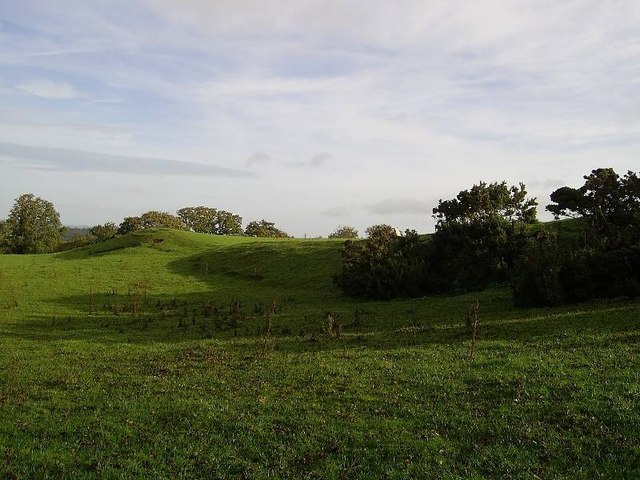 Castell Allt Goch This Iron Age hill fort occupies high ground in the south-west of the square and is used as pasture for sheep. A more detailed description is included at